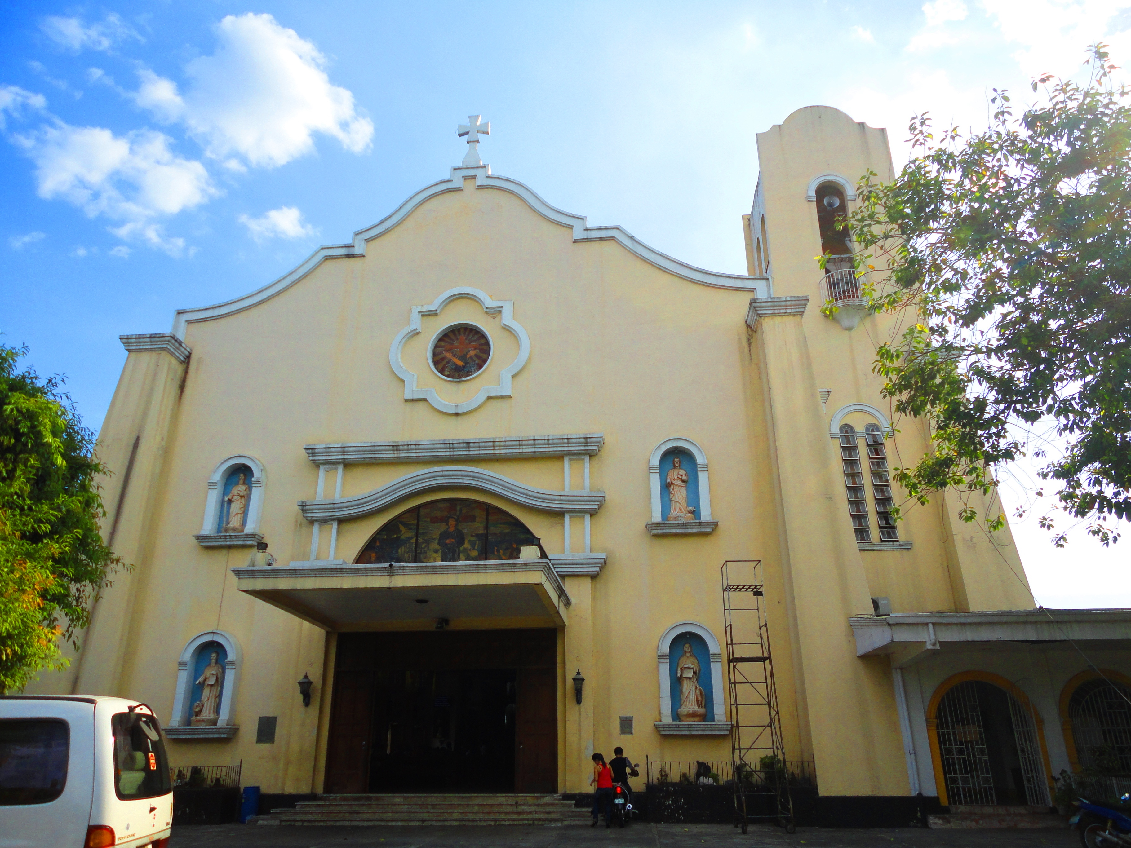 Santuario de San Pedro Bautista, SFDM, QC